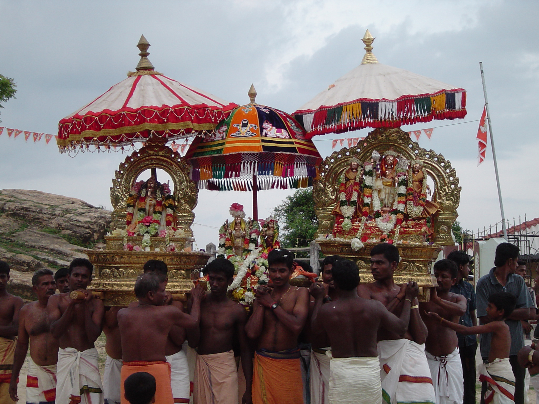 Barebodied Hindu men carry the figures of their gods in procession